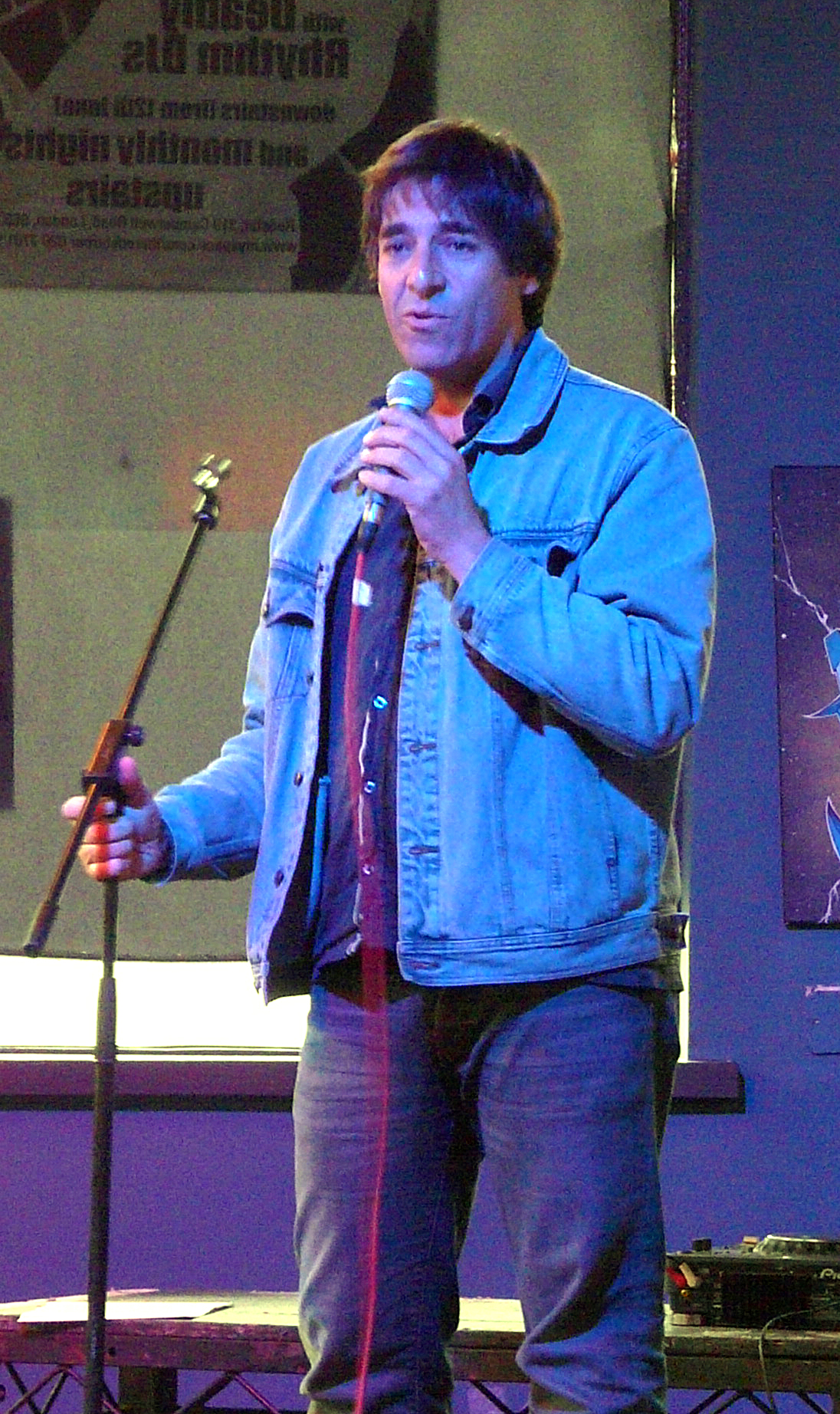 Mark Steel at The Red Star, Camberwell